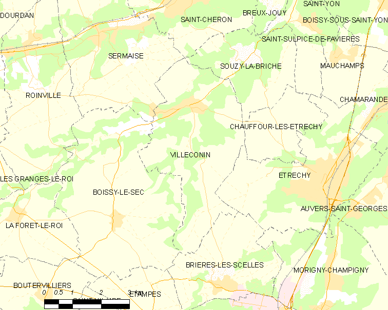 Map of French municipality Villeconin